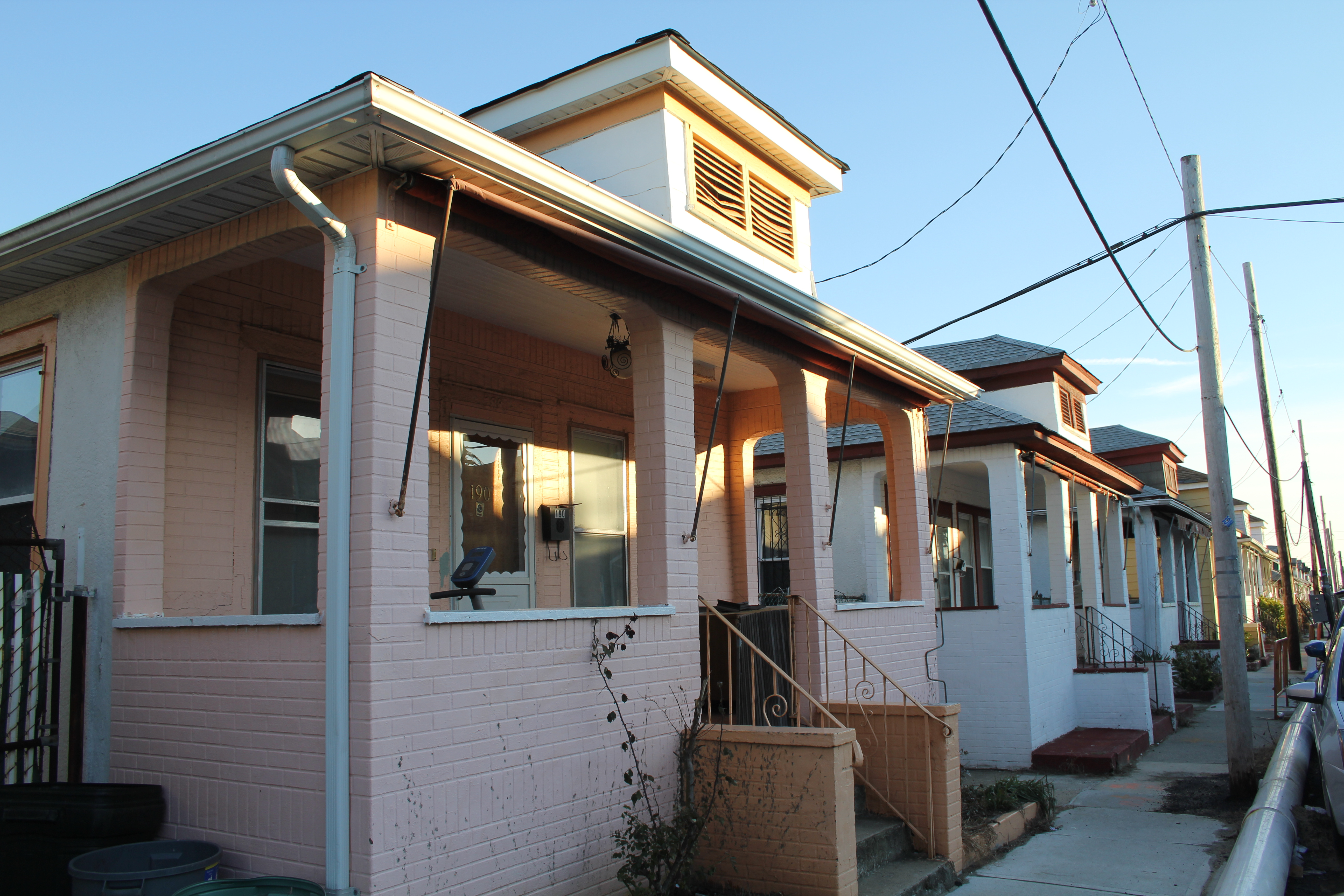 Far Rockaway Beach Bungalow Historic District, listed on the National Register of Historic Places (NRIS #13000499).